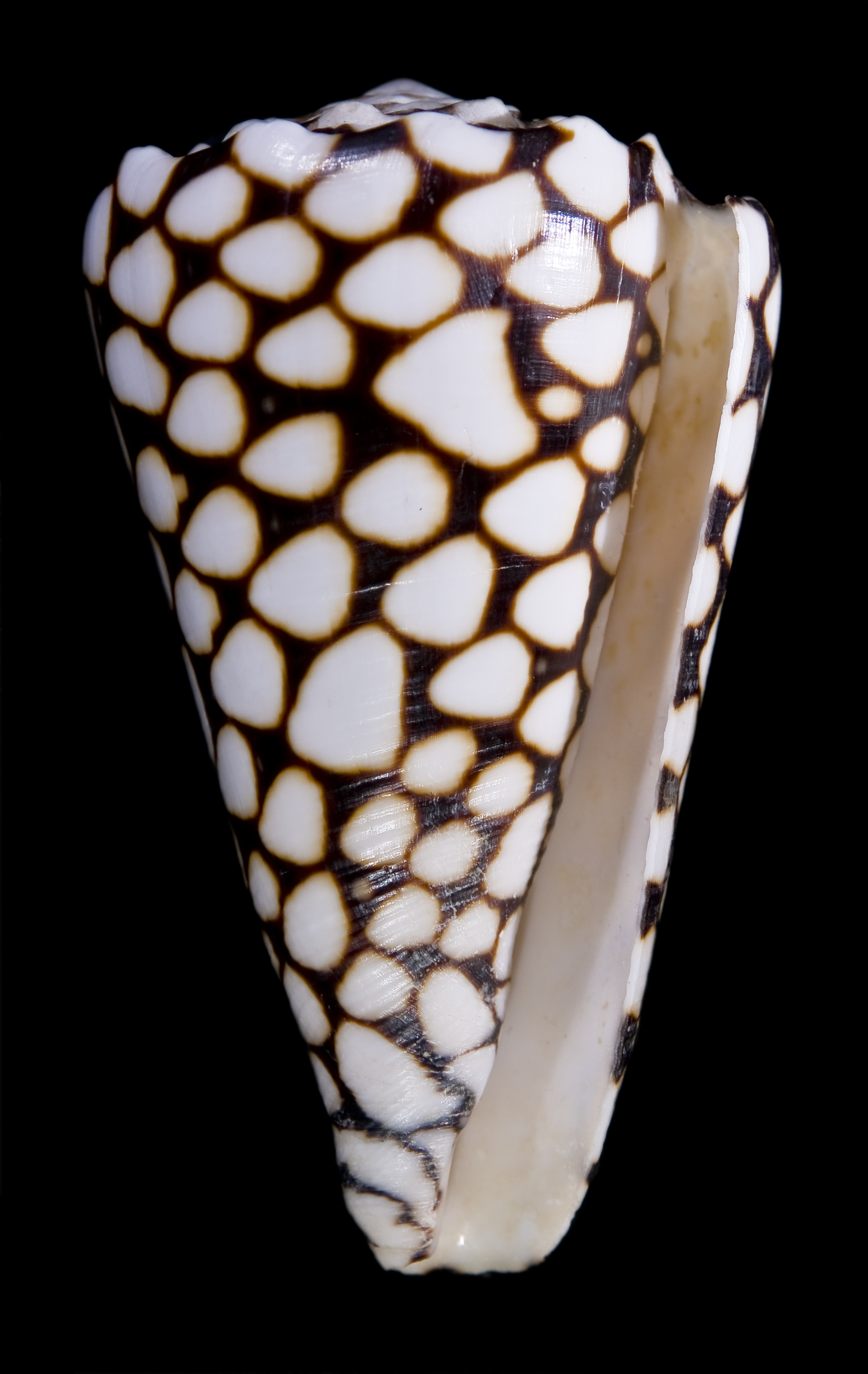 Conus marmoreus - Conidae - Cebu Island Philippines - 7cm